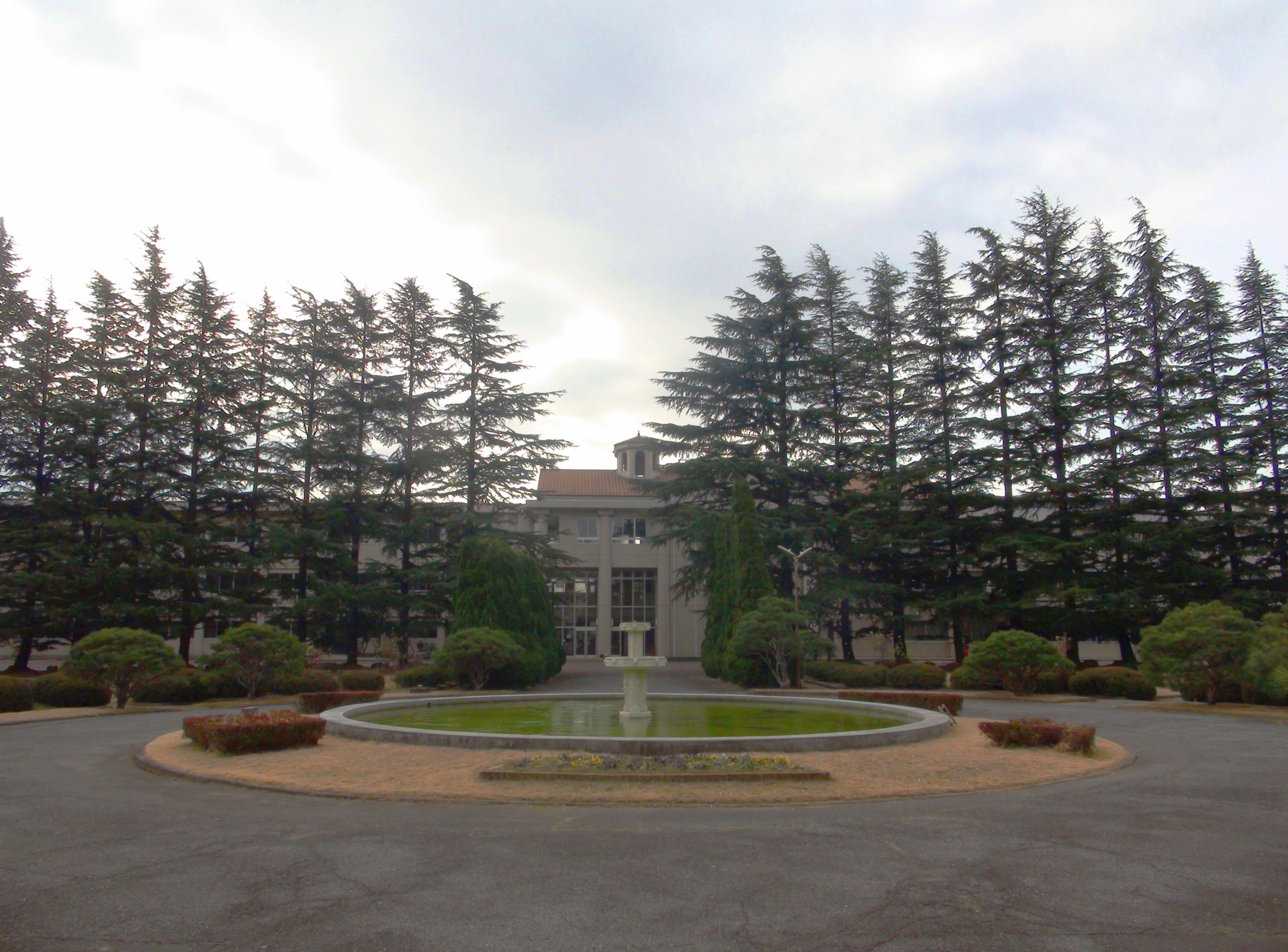 Yamanashi prefectural Norin High School